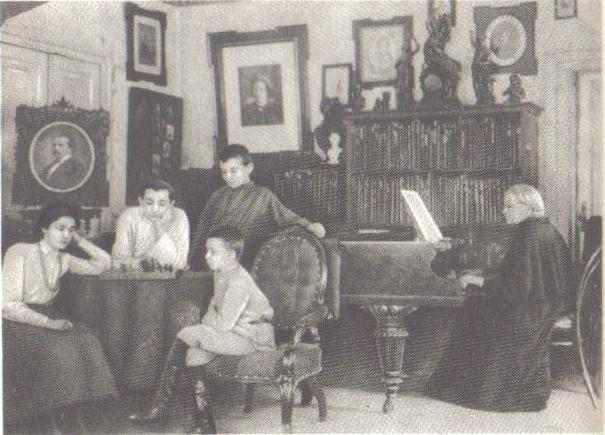 Mikhail Nikolayevich Tukhachevsky in his family circle